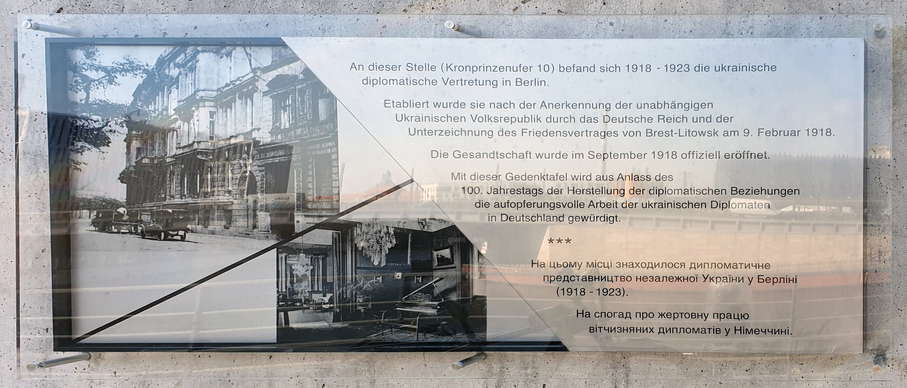 Memorial plaque, Ukrainische diplomatische Vertretung, Ludwig-Erhard-Ufer, Berlin-Tiergarten, Germany